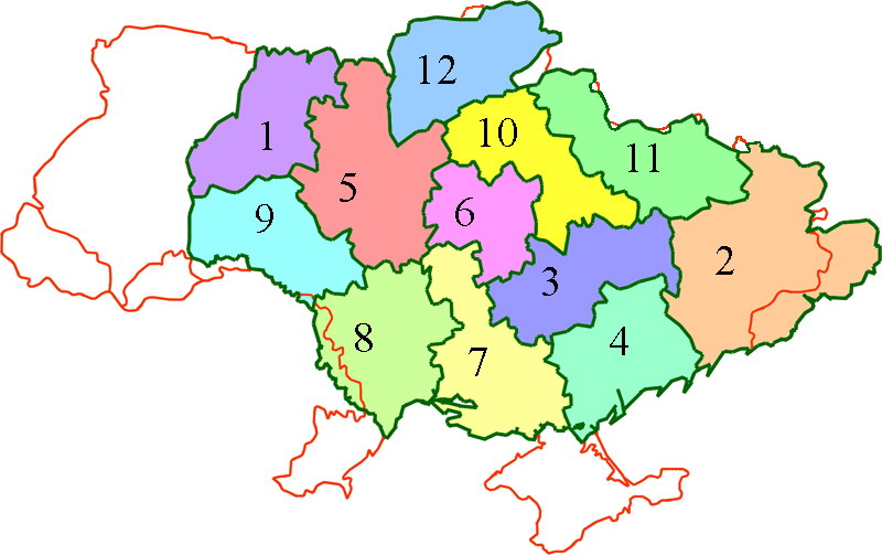 map of gubernia of Ukrainian SSR on 1921